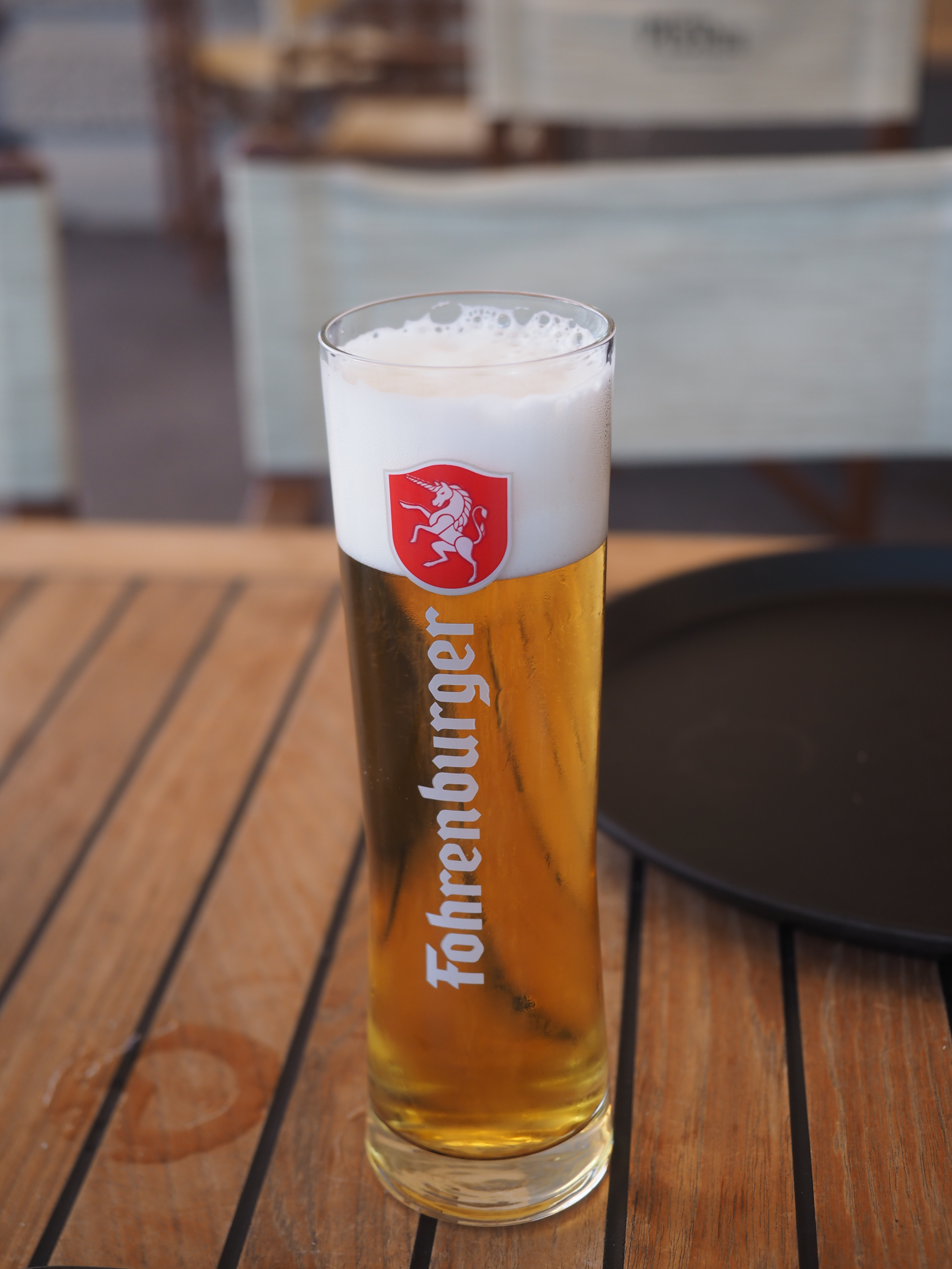 A glass of Fohrenburger beer served at restaurant Pier 69 in Bregenz, Vorarlberg, Austria. For some reason the beer, which I ordered together with my food, arrived 15 minutes later than my food, by which time I had already eaten my food.